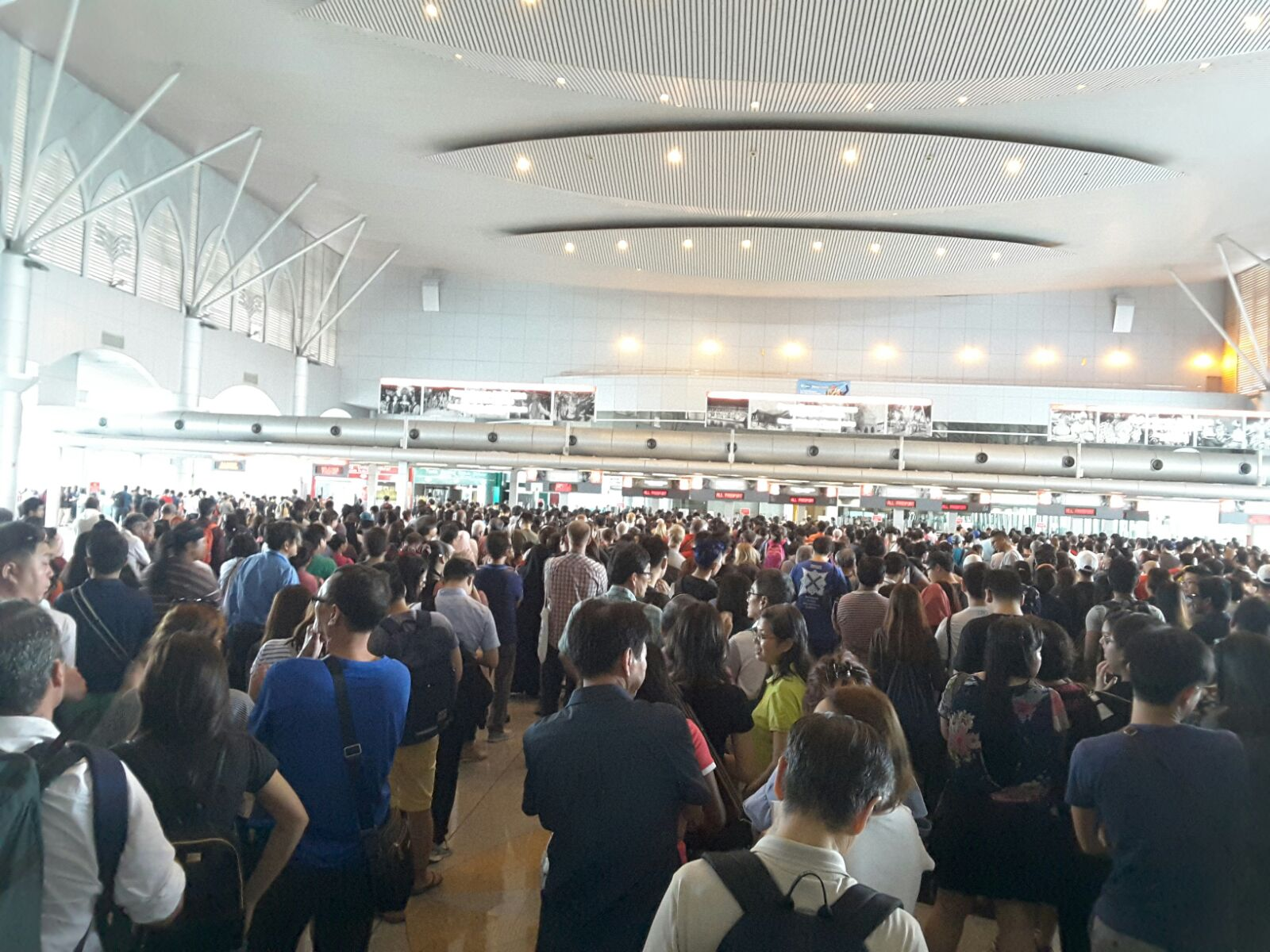 Entering Malaysia from Singapore.